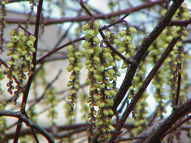 Species: Stachyurus chinensis Family: Stachyuraceae Image No. 4